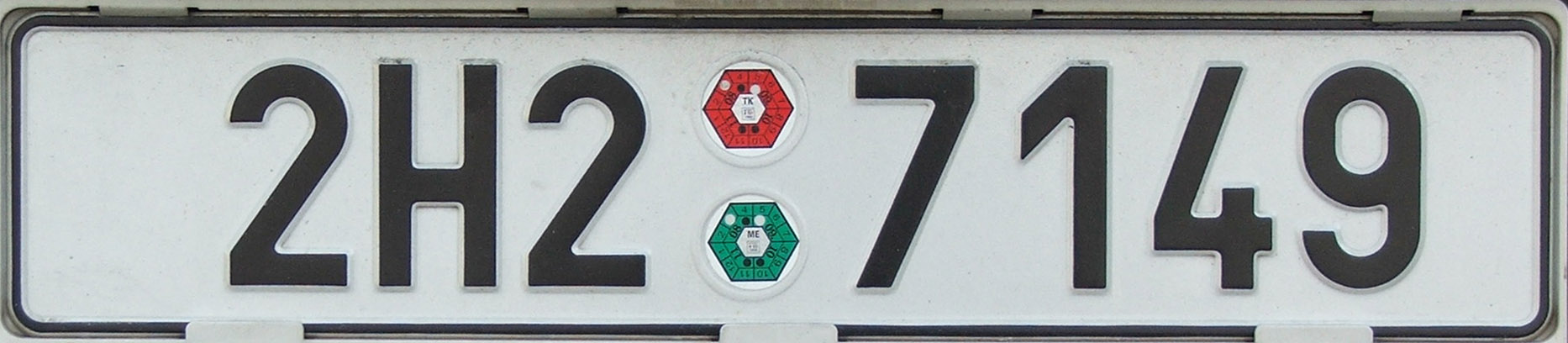 Czech registration plate after 2001 -(New system of licence plates) but before 2005 (without EU symbols). "H" stand for Hradec Králové region.